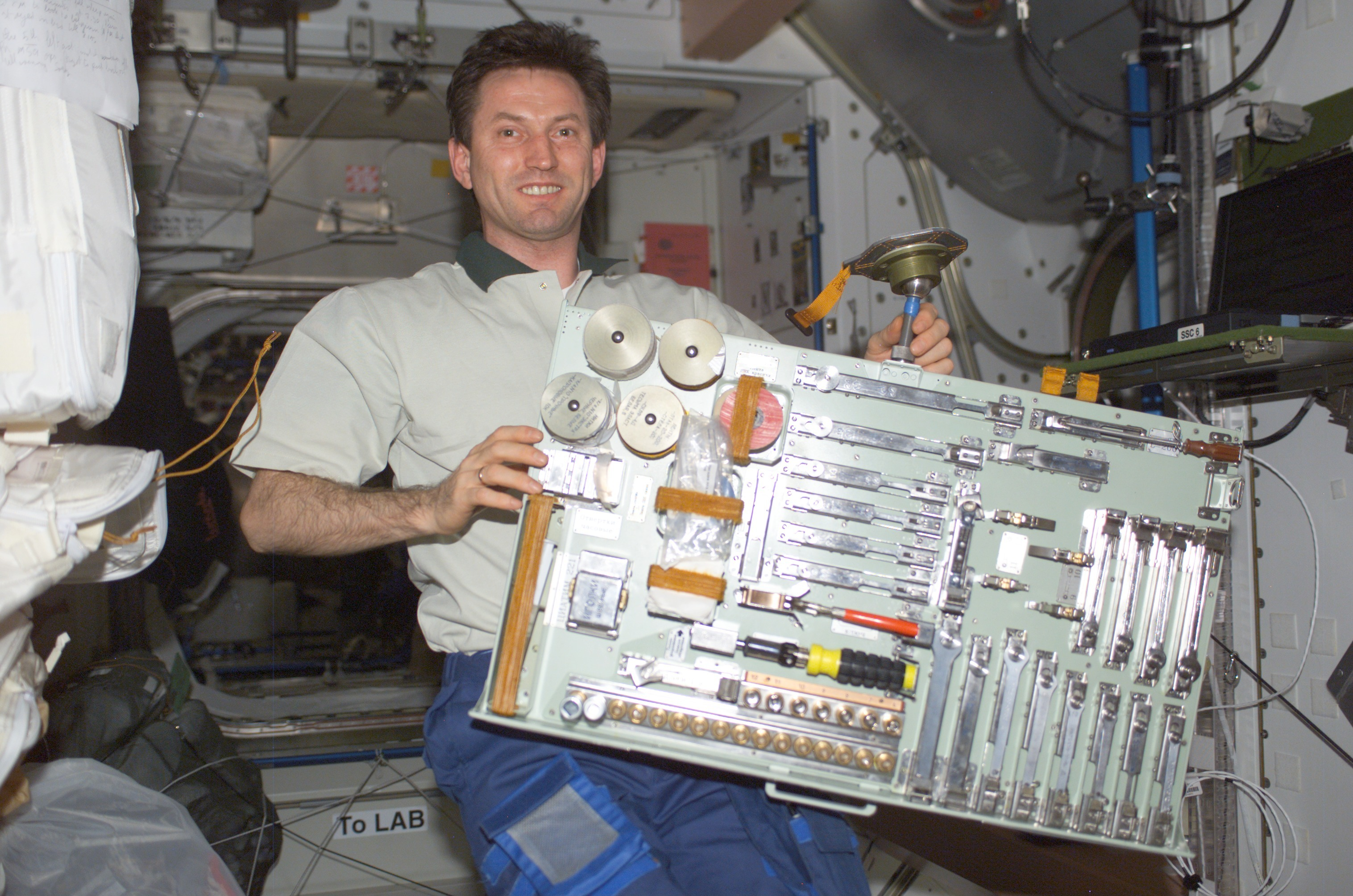 Cosmonaut Sergei Y. Treschev, Expedition Five flight engineer, holds a pallet containing various tools in the Unity node on the International Space Station (ISS). Treschev represents Rosaviakosmos.